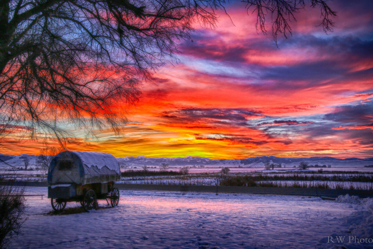 Photo Credit: Dave Fitzpatrick / USFWS